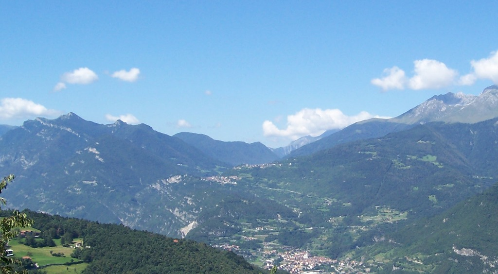 Ossimo, Val Camonica